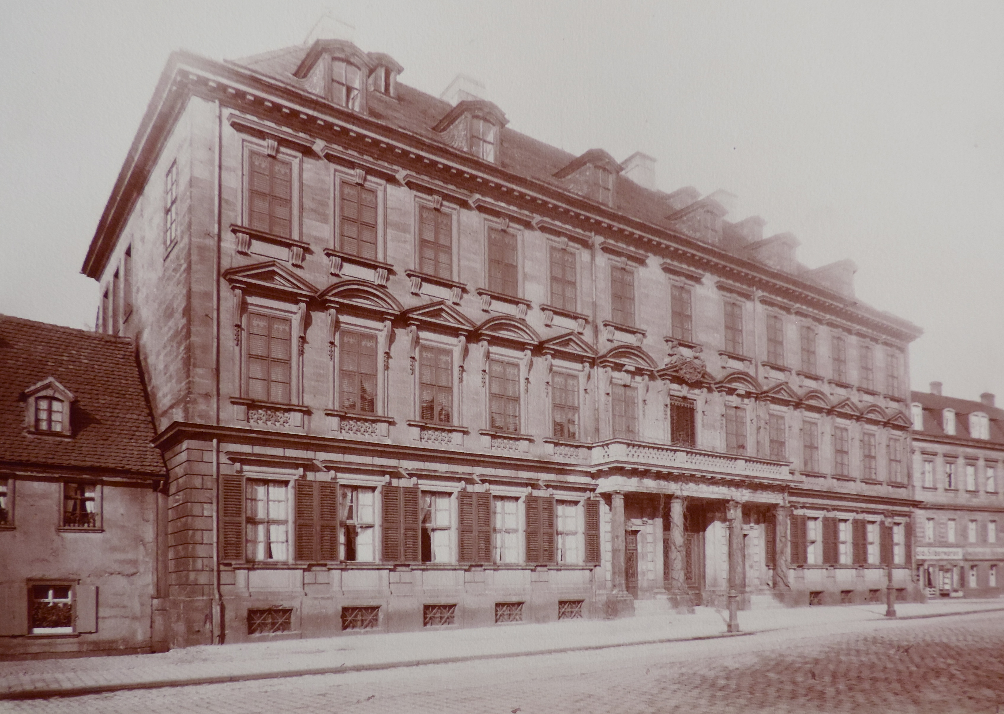 Views and photos of Bayreuth, Germany, gifted to Ferdinand I of Bulgaria to commemorate his 25-year rule. A duke palace from 1758.